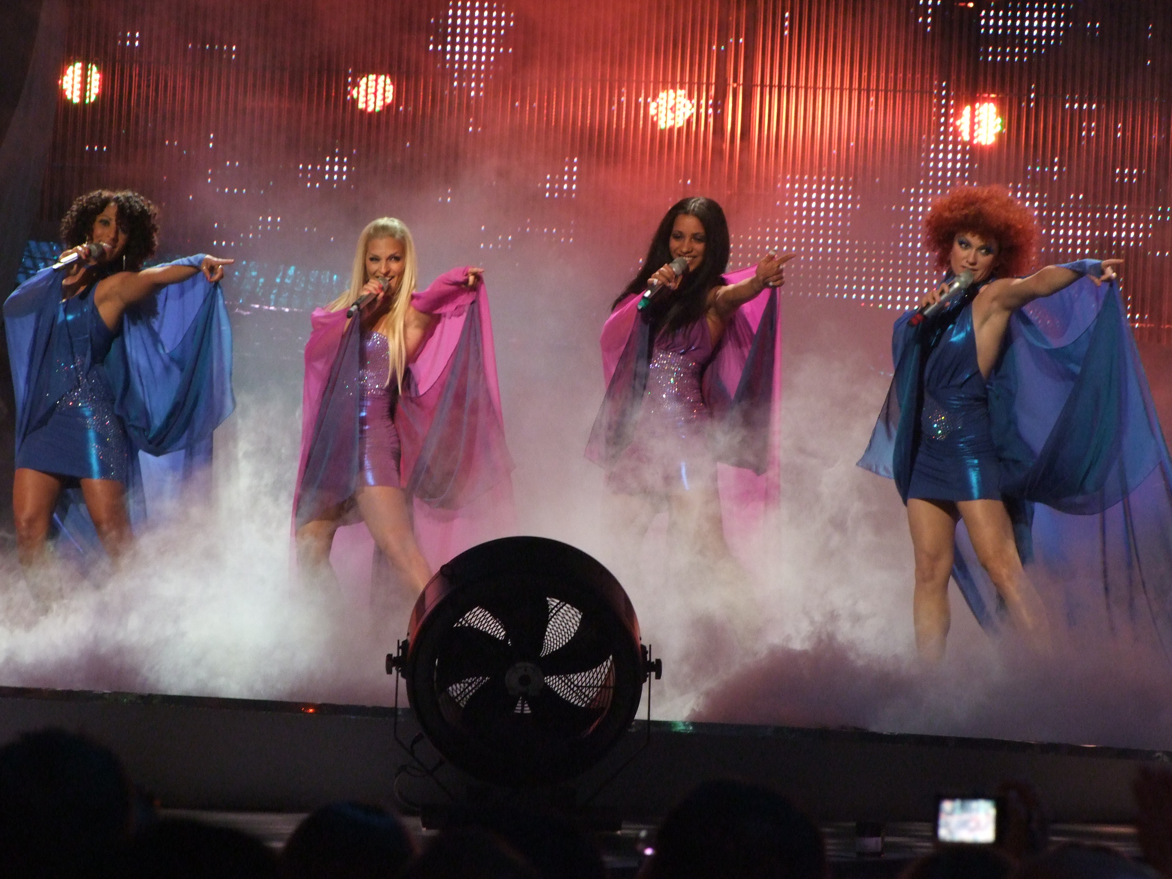 No Angels (Germany) performing Disappear at Eurovision Song Contest 2008 in Belgrade, Serbia, May 24, 2008.